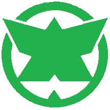 Ono Gifu chapter